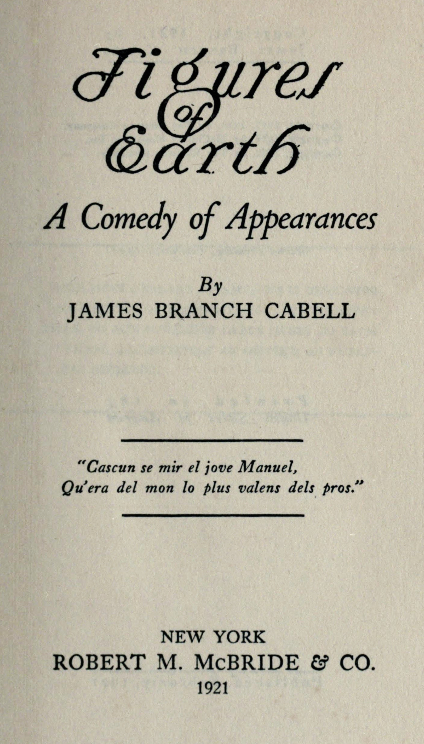 1st edition title pg